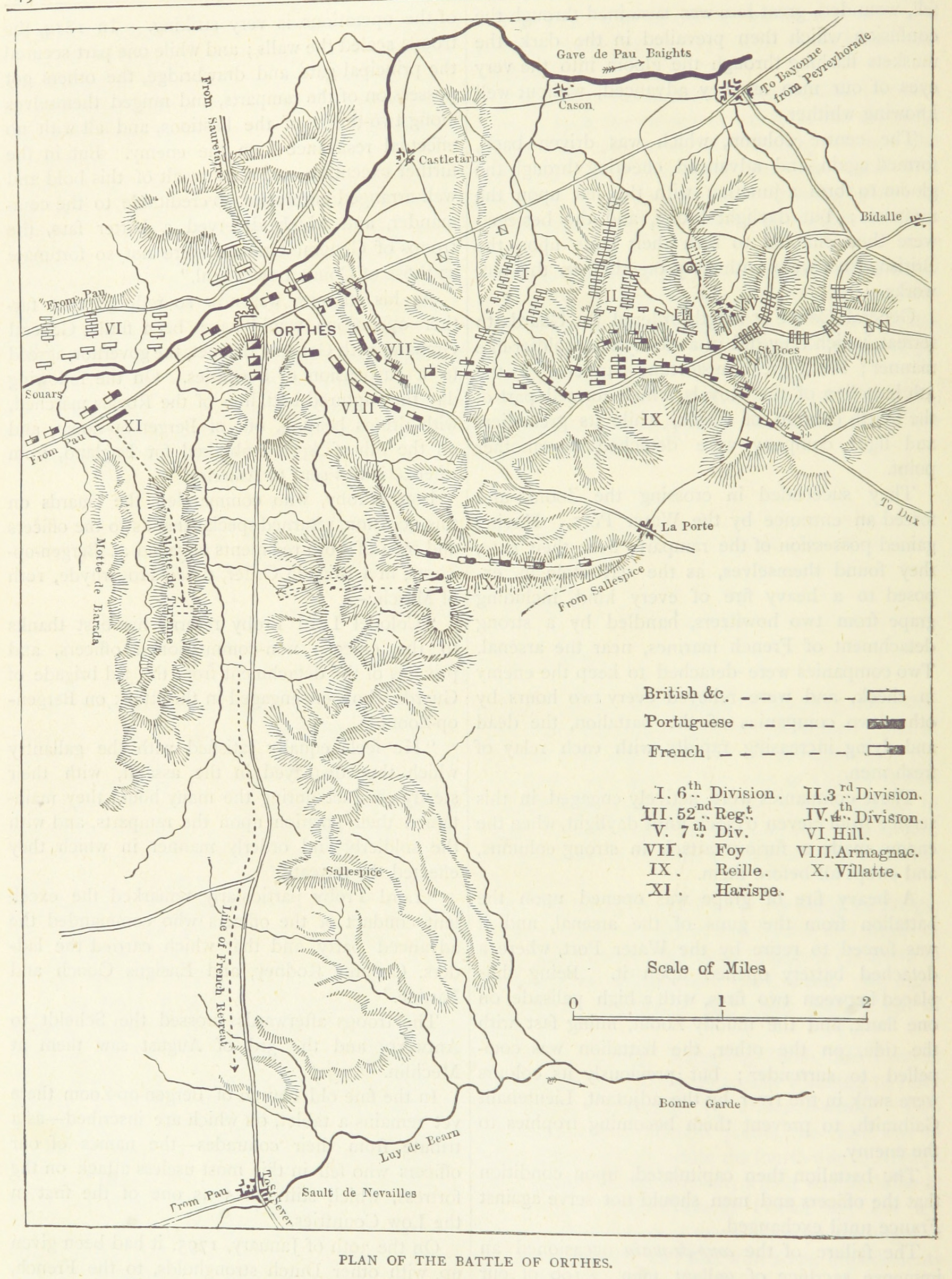 A map of the 1814 Battle of Orthez.